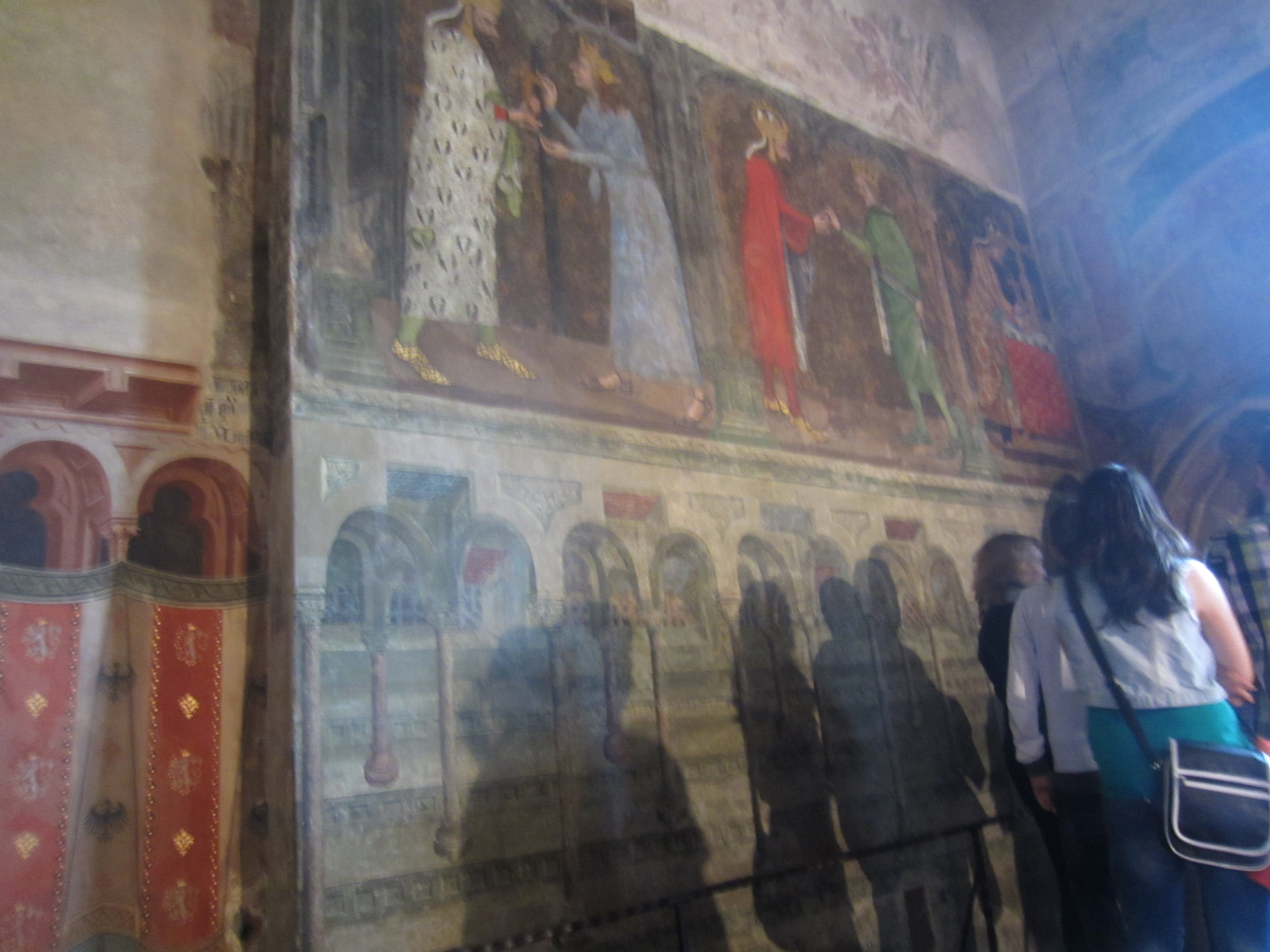 Chapel of the Holy Cross at Karlštejn Castle